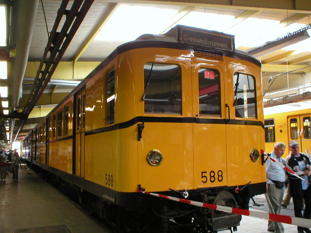 Berlin underground Class C train at the Friedrichsfelde depot